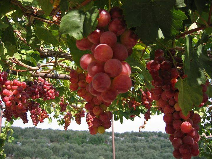 Grapes in Lebanon.